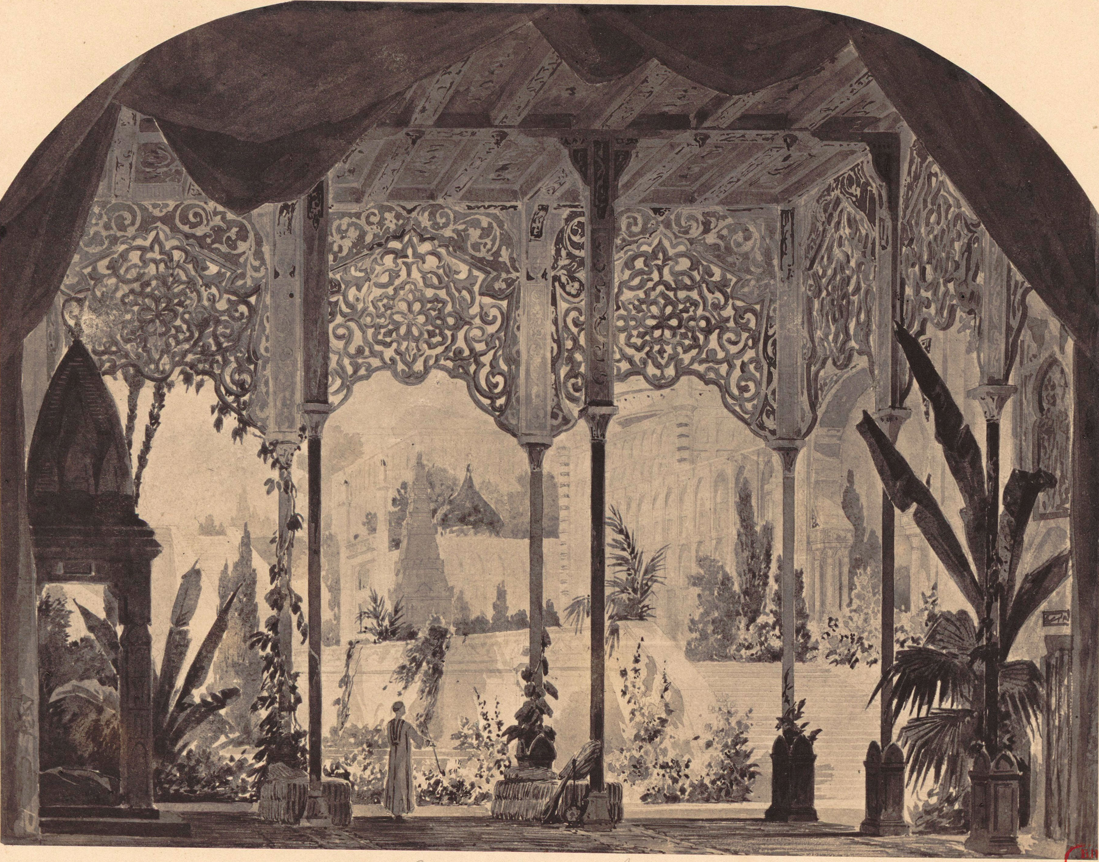 Set design for Act 2 of Lalla Roukh composed by Félicien-César David (premiere production, Opéra-Comique, Paris, May 1862)